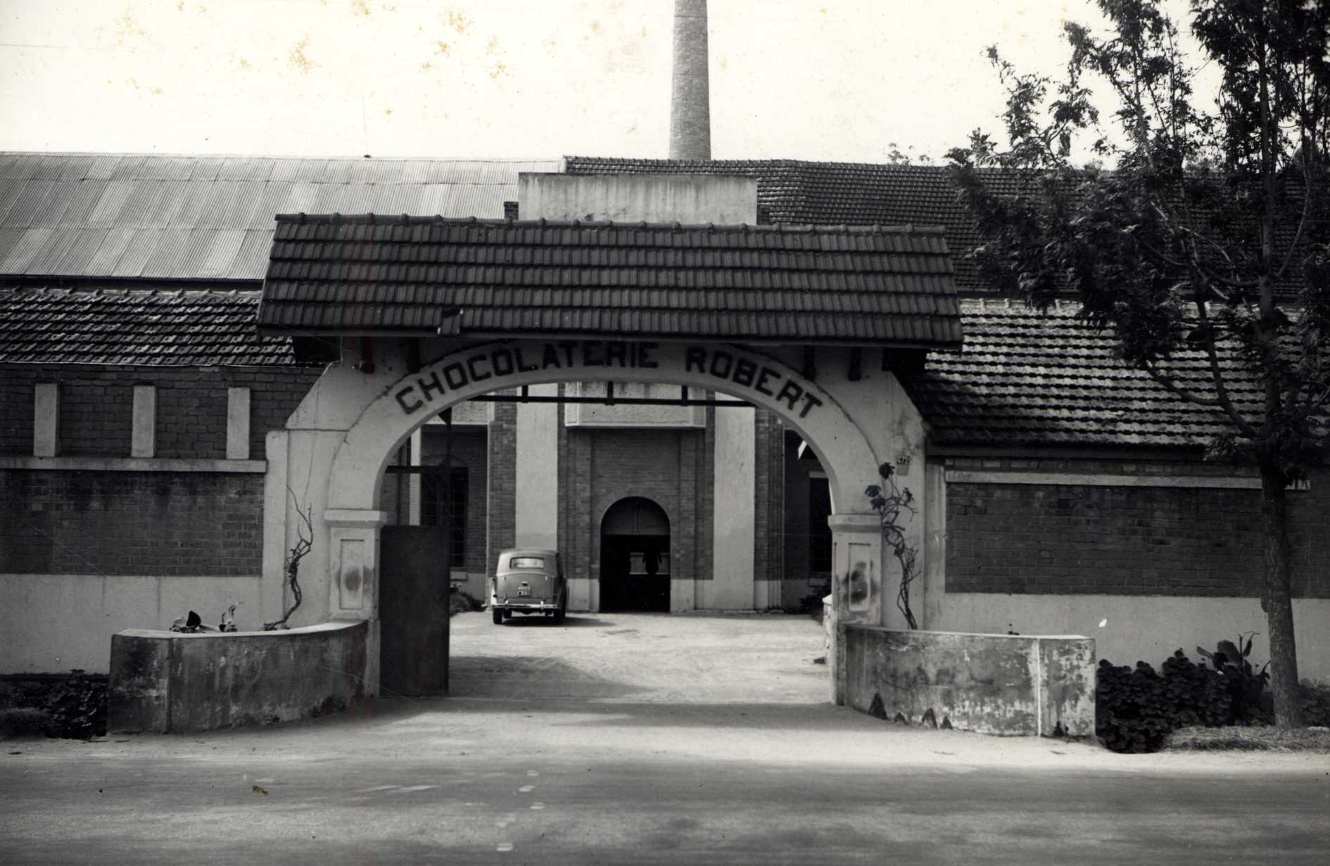 Entrée